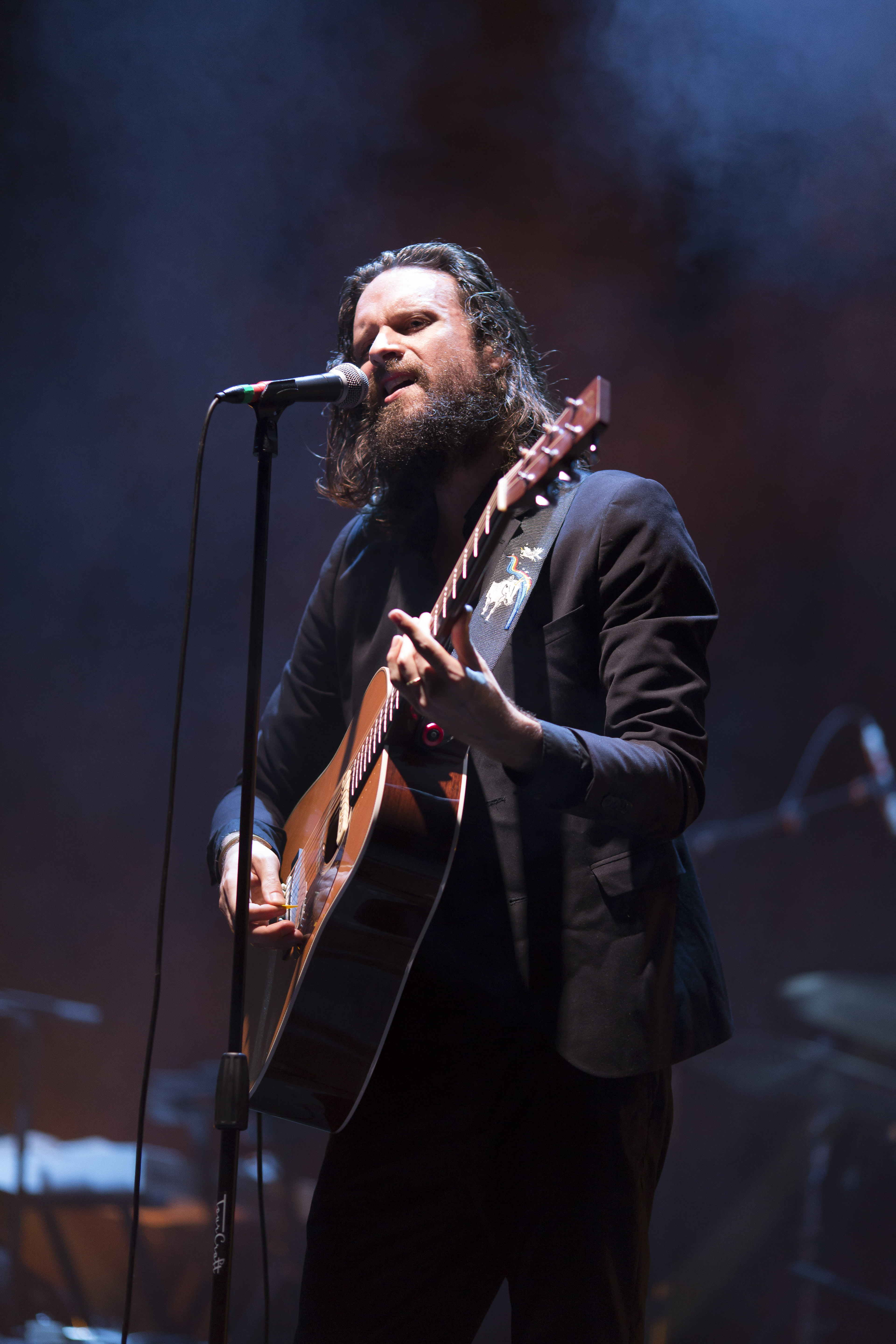 Fairgrounds 2015 - Father John Misty